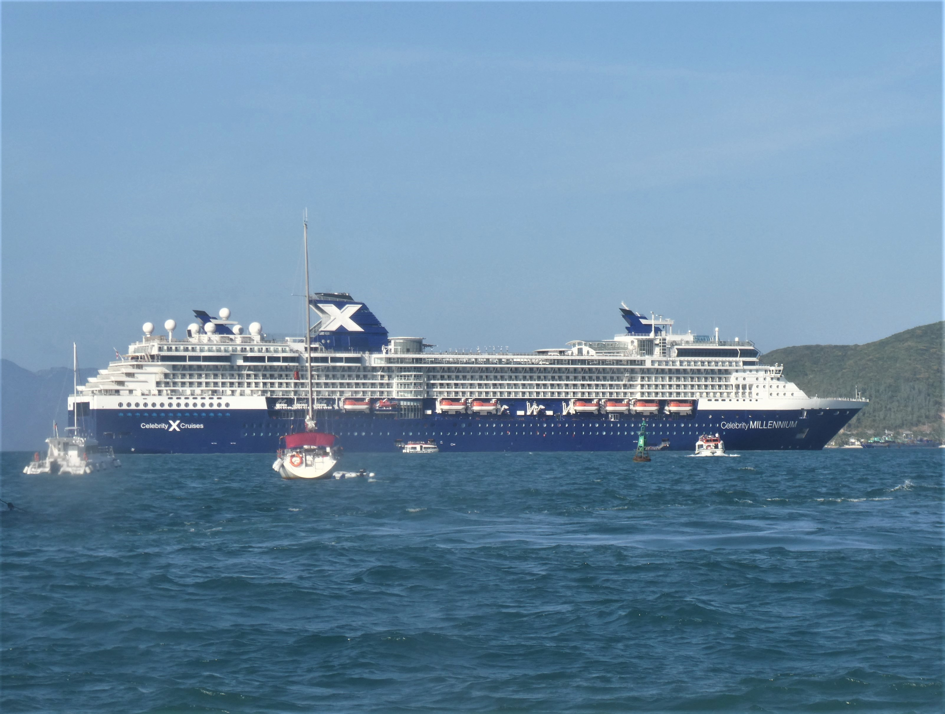 Celebrity Millennium anchored in Nha Trang, Vietnam